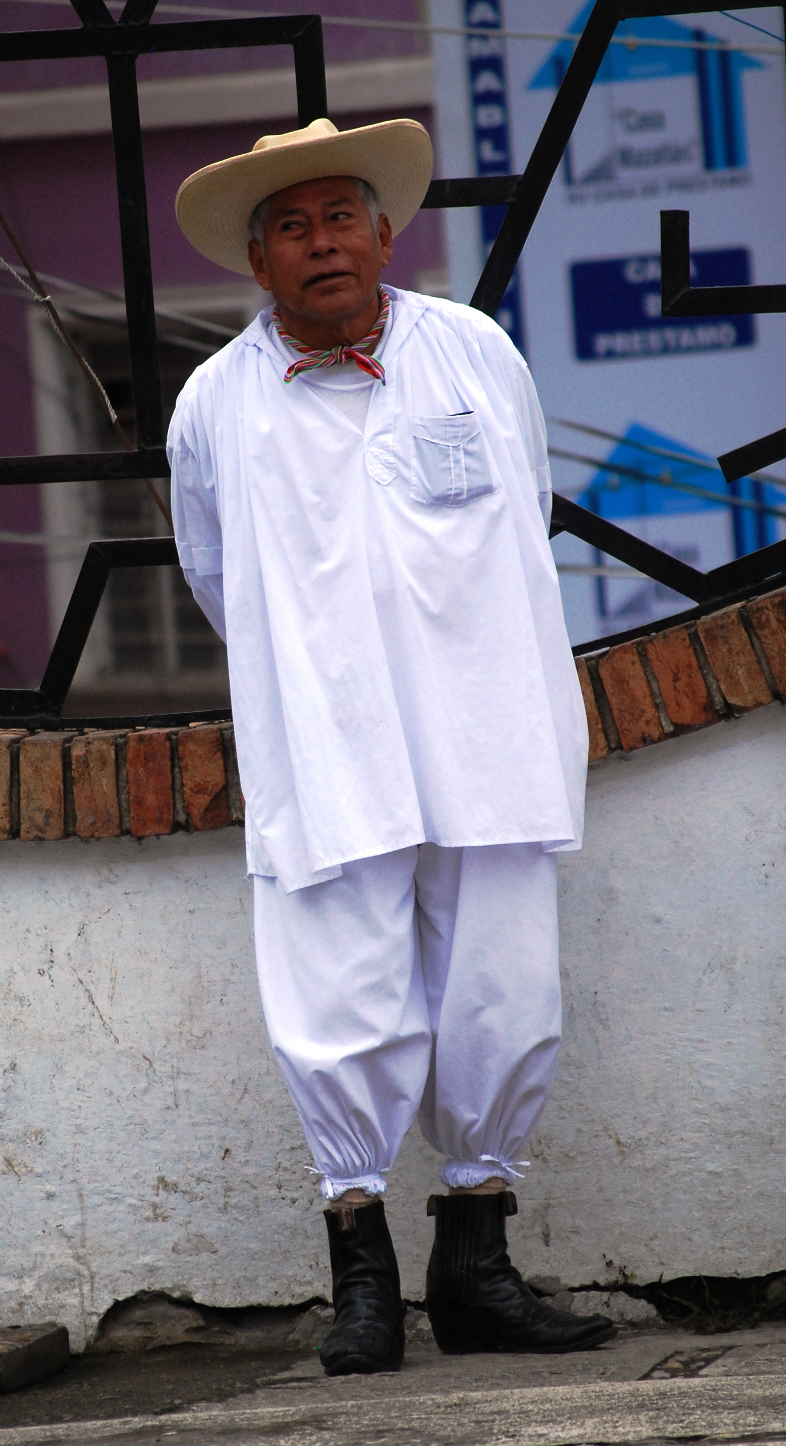 Totonac man in traditional dress in Papantla, Veracruz